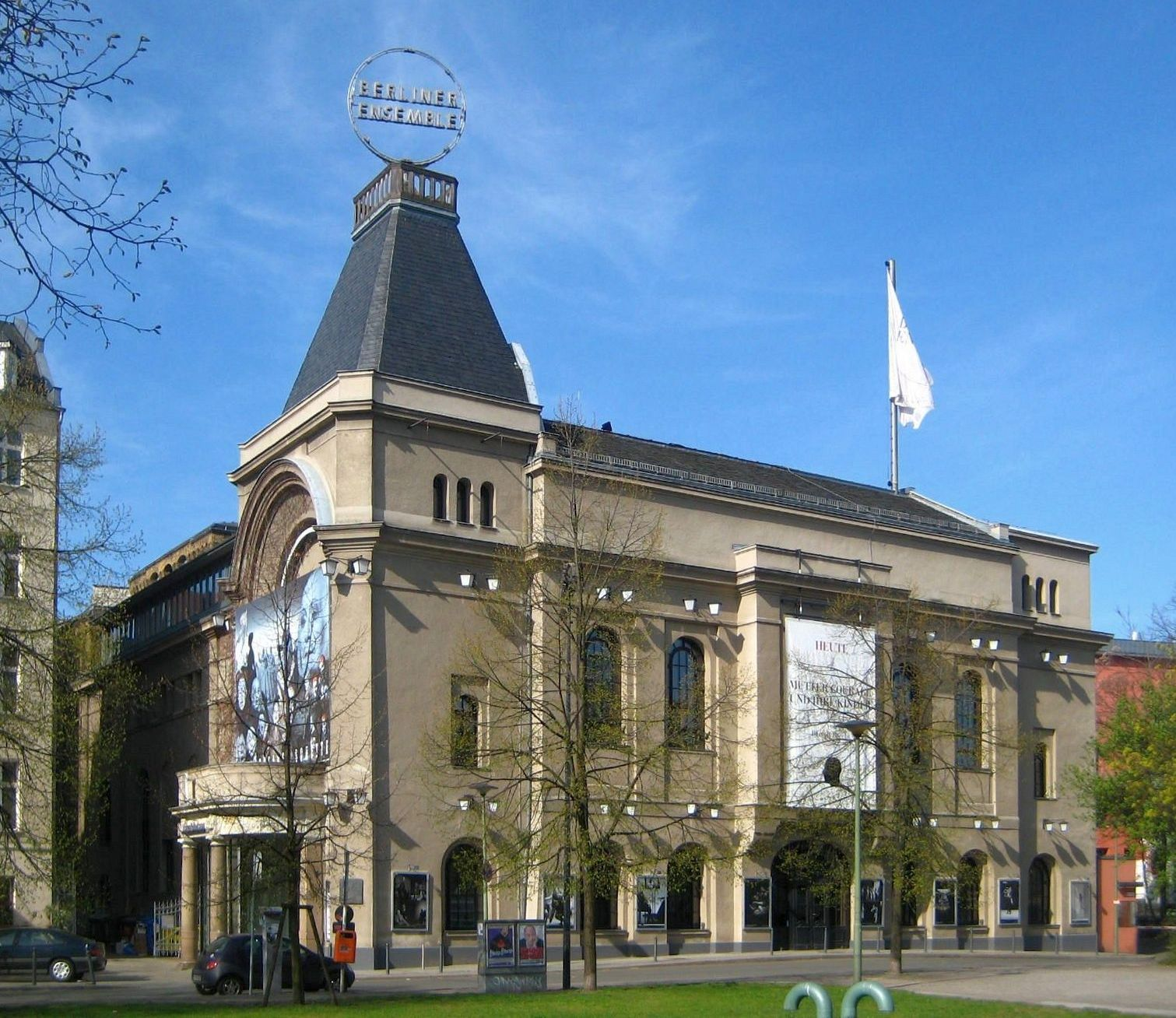 The Theater am Schiffbauerdamm at Bertolt-Brecht-Platz No. 1 in Berlin-Mitte, home of the Berlin Ensemble. The theater was built from 1891 to 1892 to a design by Heinrich Seeling. The building has been designated as a historic landmark.